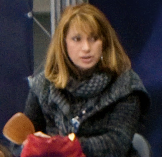 2010 Cup of Russia.